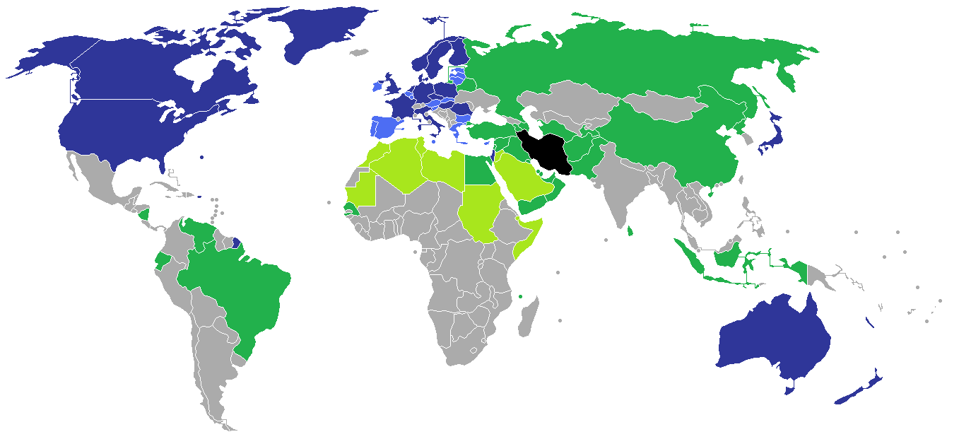 Map of the Iranian Presidential election of 2009 international responses